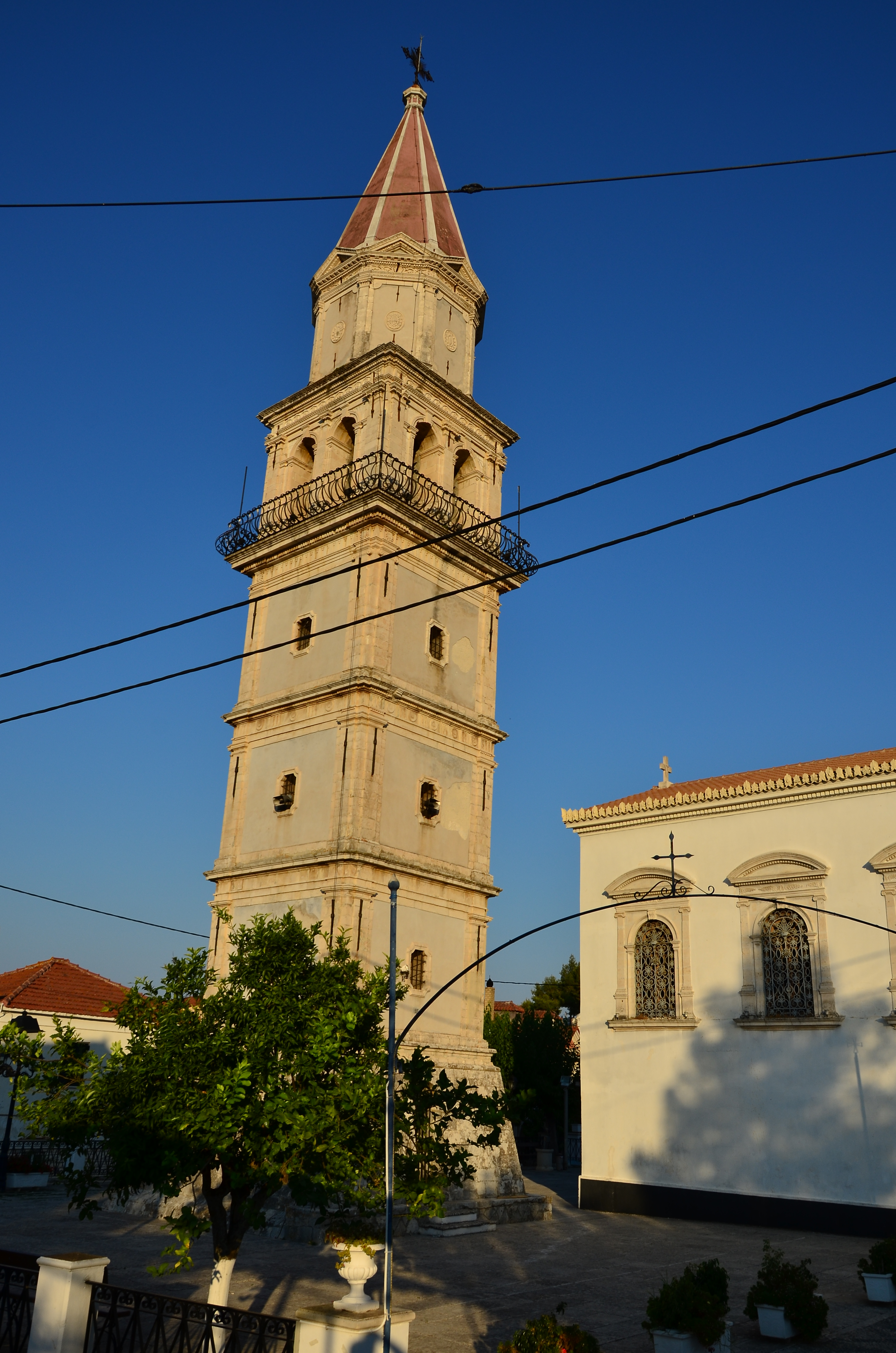 Agia Mavra, Machairado, Zakynthos, Greece